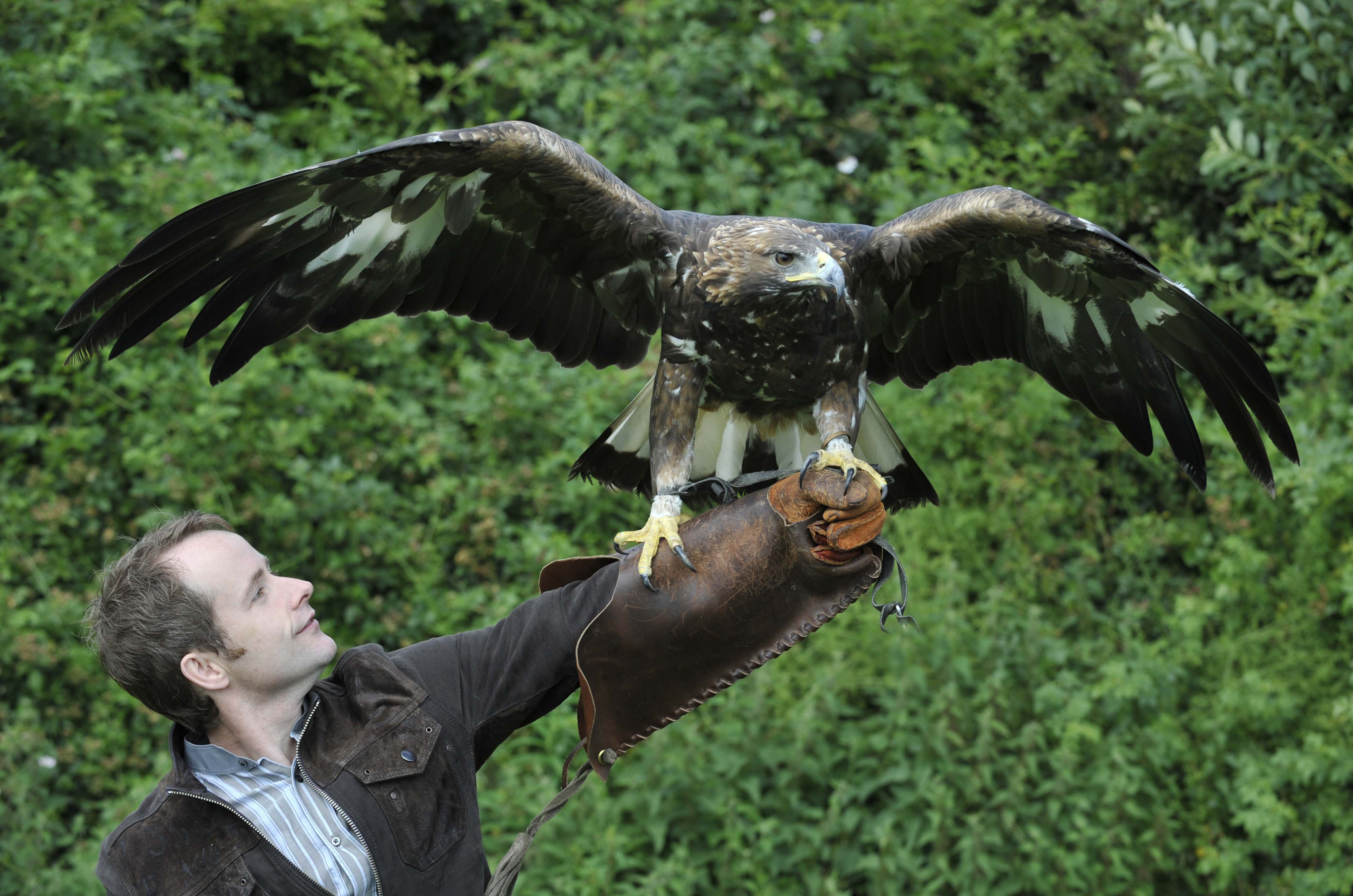 UK holiday makers have said that seeing a Golden Eagle is one of the top ten things to do on a perfect break in Scotland. Billy Boyd gets up close and personal with a Golden Eagle from Raptor World in Fife. Credit: and Rob McDougall